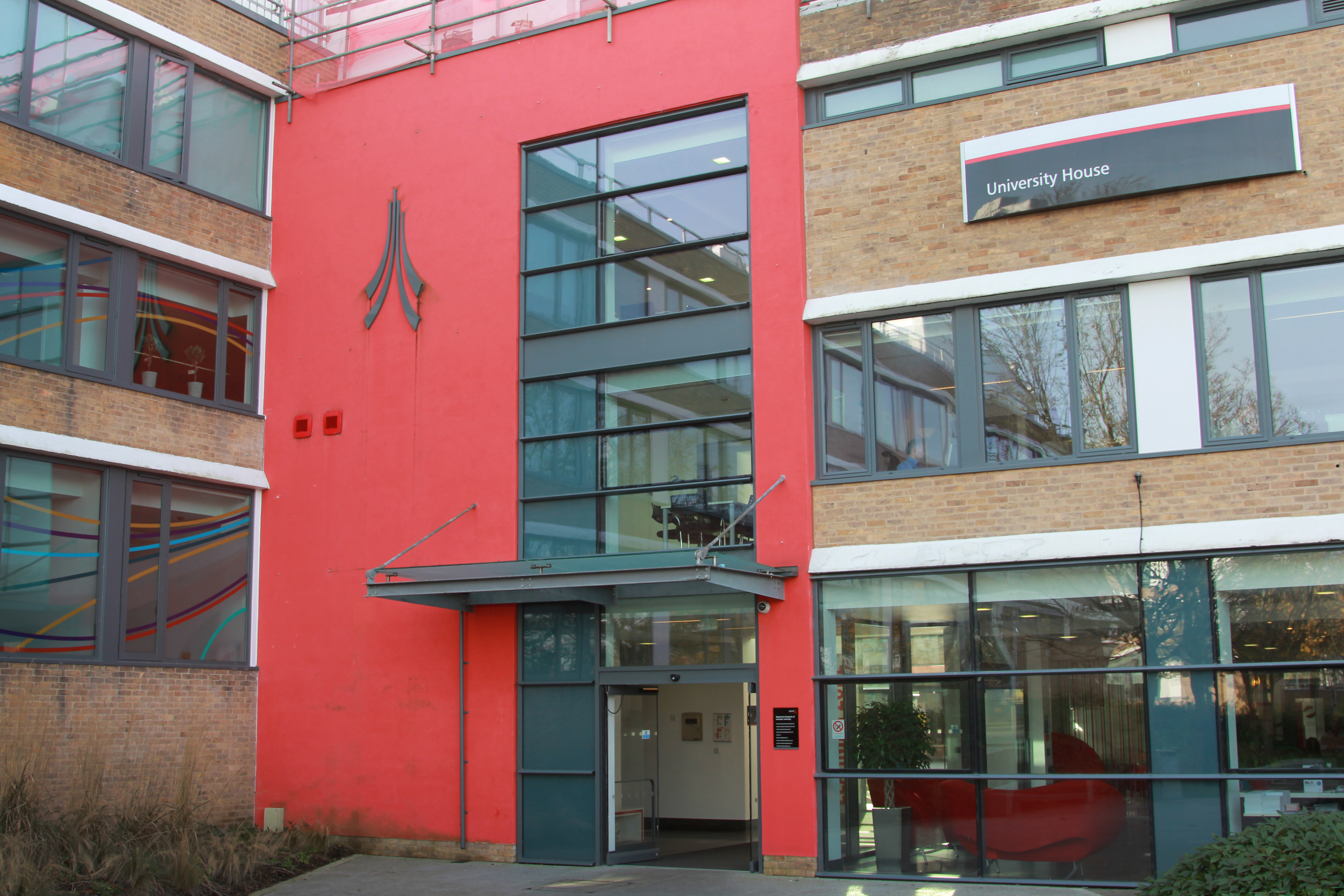 University House, where LUSU is based